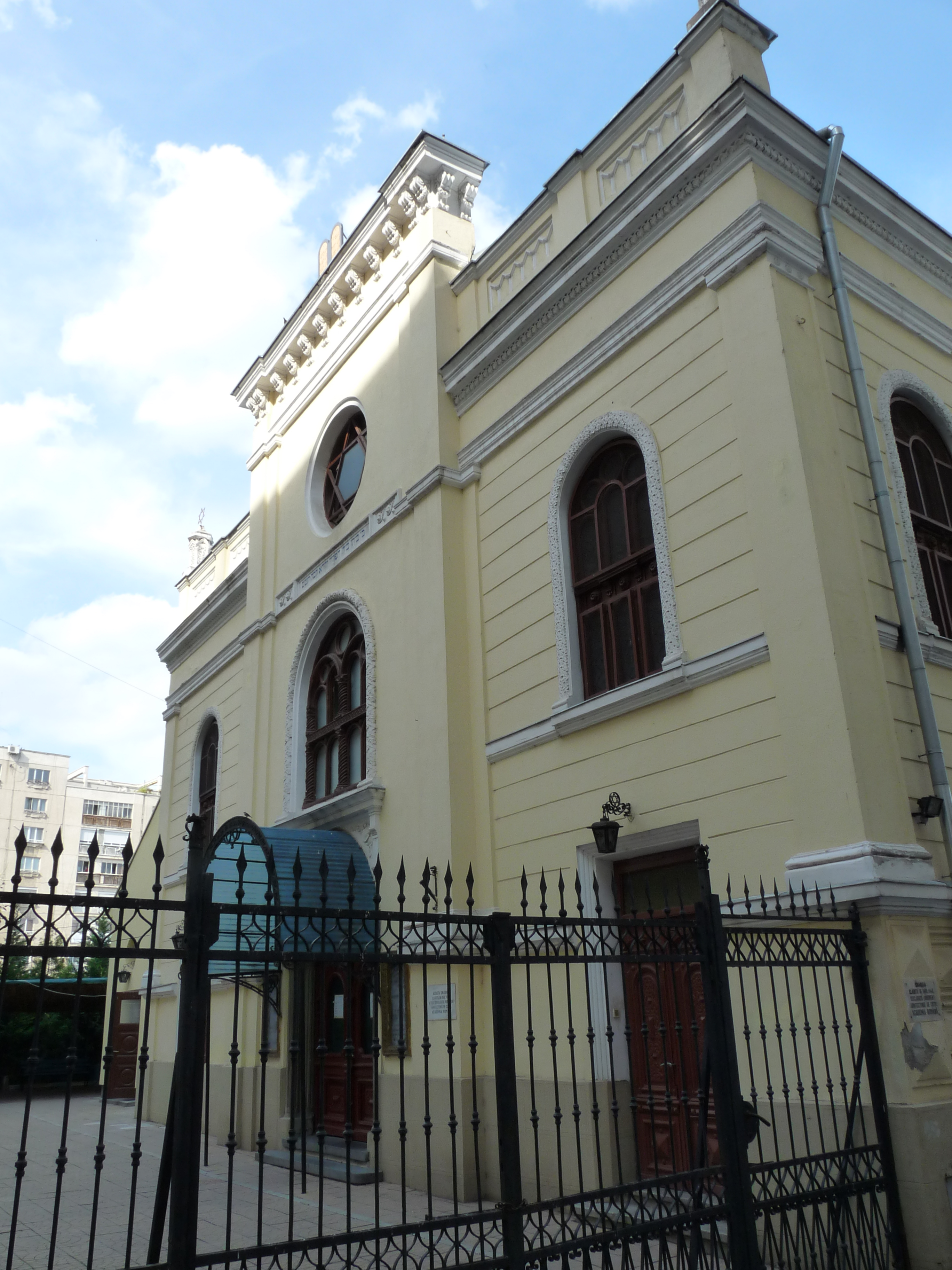 The Great Synagogue in the historic Jewish quarter of Bucharest, RomaniaRomână: Sinagoga Mare din cartierul evreiesc din Bucureşti, România